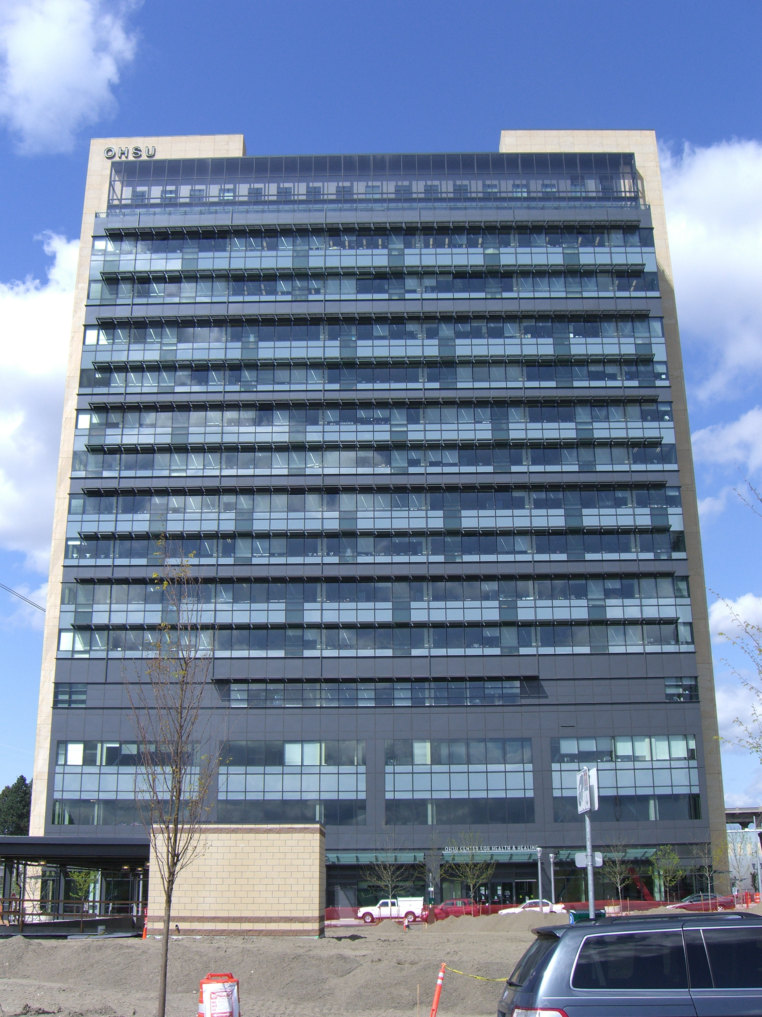 The OHSU Center for Health & Healing